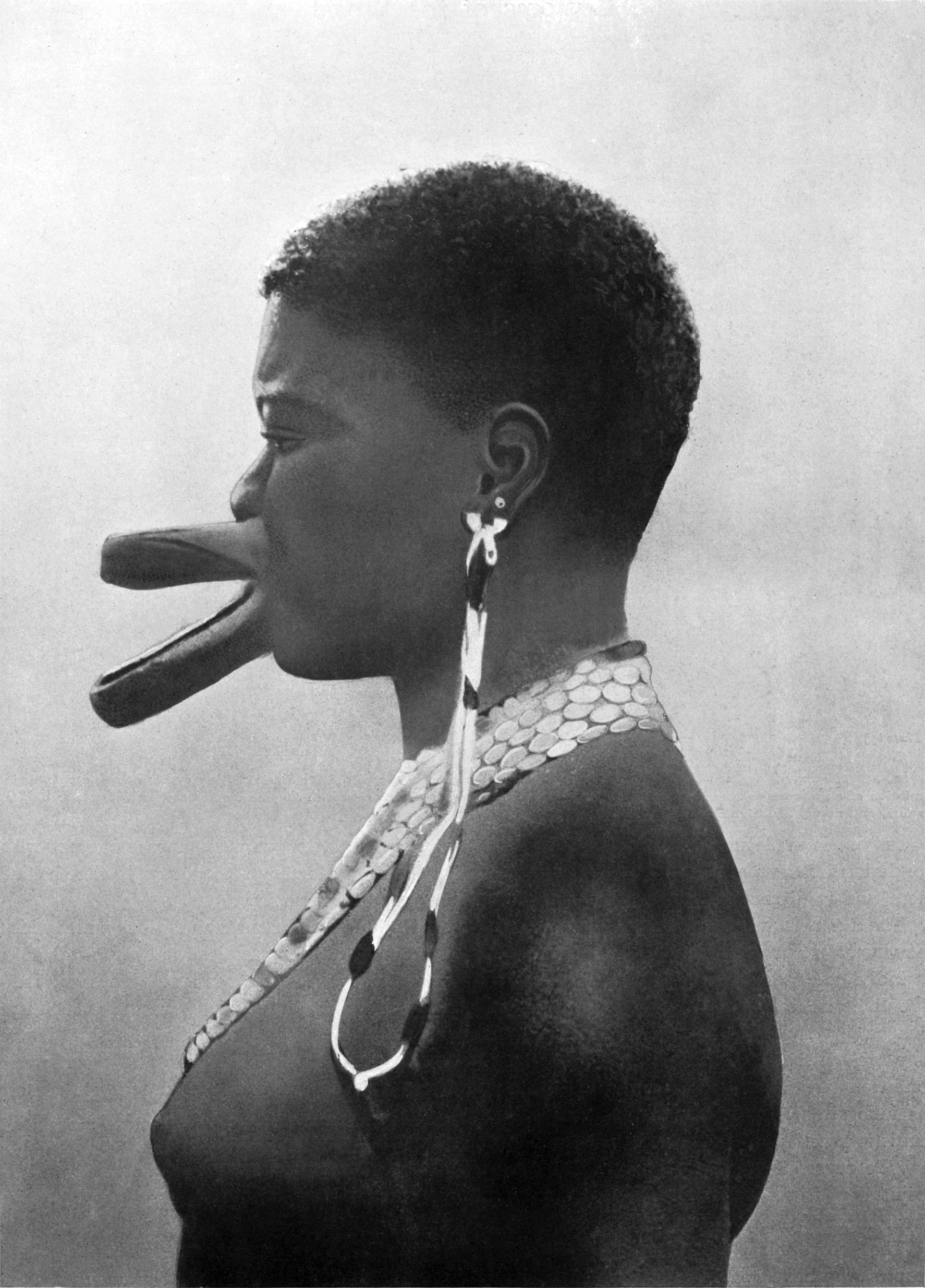 Artificial Deformation; All the women of the Sara tribe have this stretched labret piercings of the lips as a sign of beauty. The effect is produced by piercing the lips and gradually enlarging the holes by inserting wooden discs, the size of which is increased as the lips get distended.